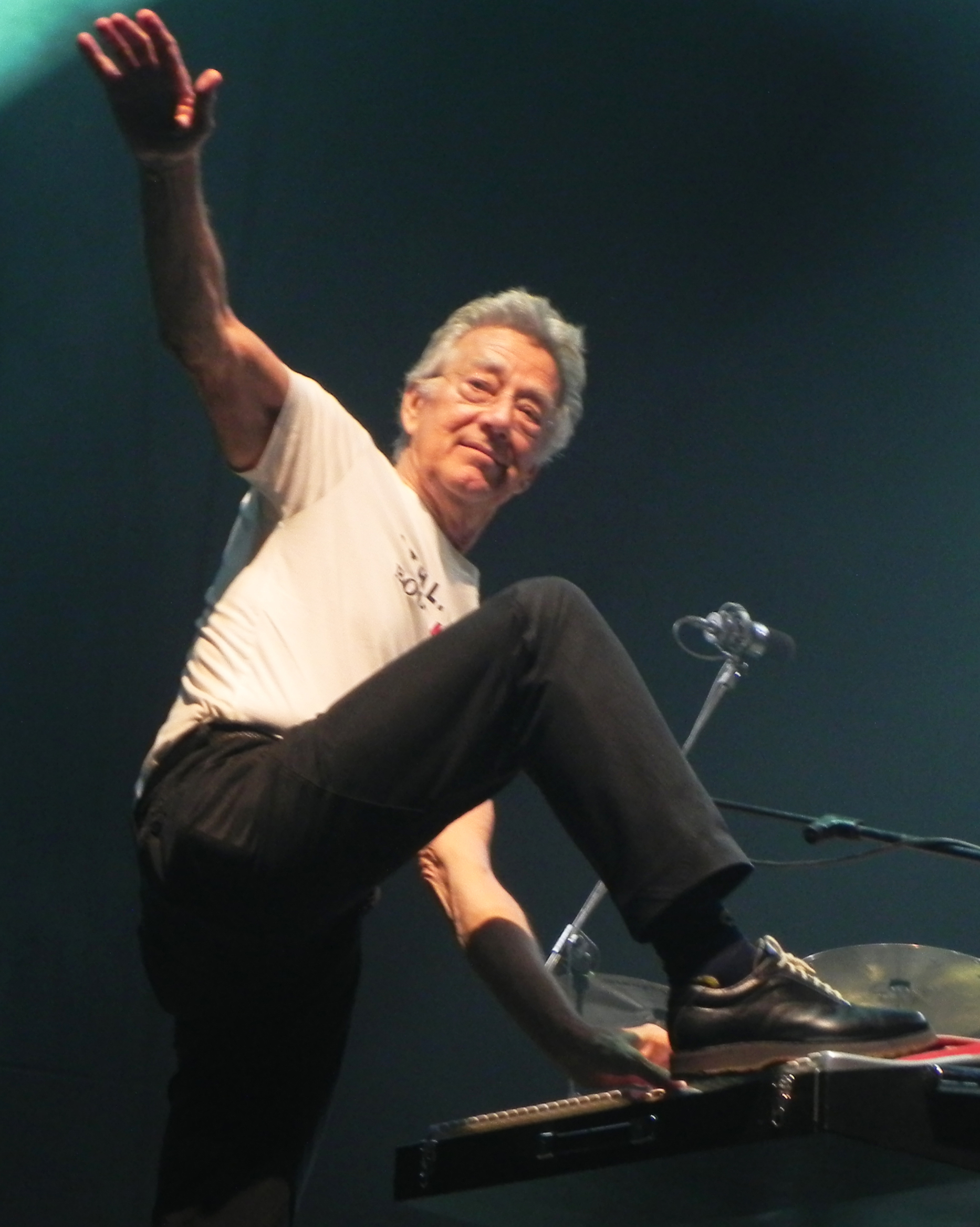 Ray Manzarek in Milan